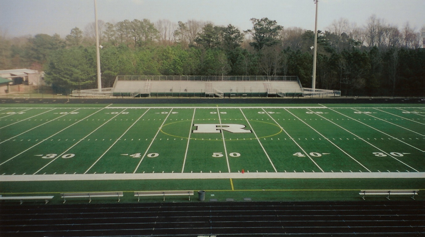 Sprint Turf Football/Soccer field at Roswell High School stadium